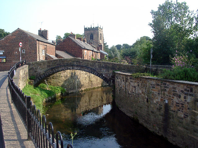 Yarrow Bridge, Croston.